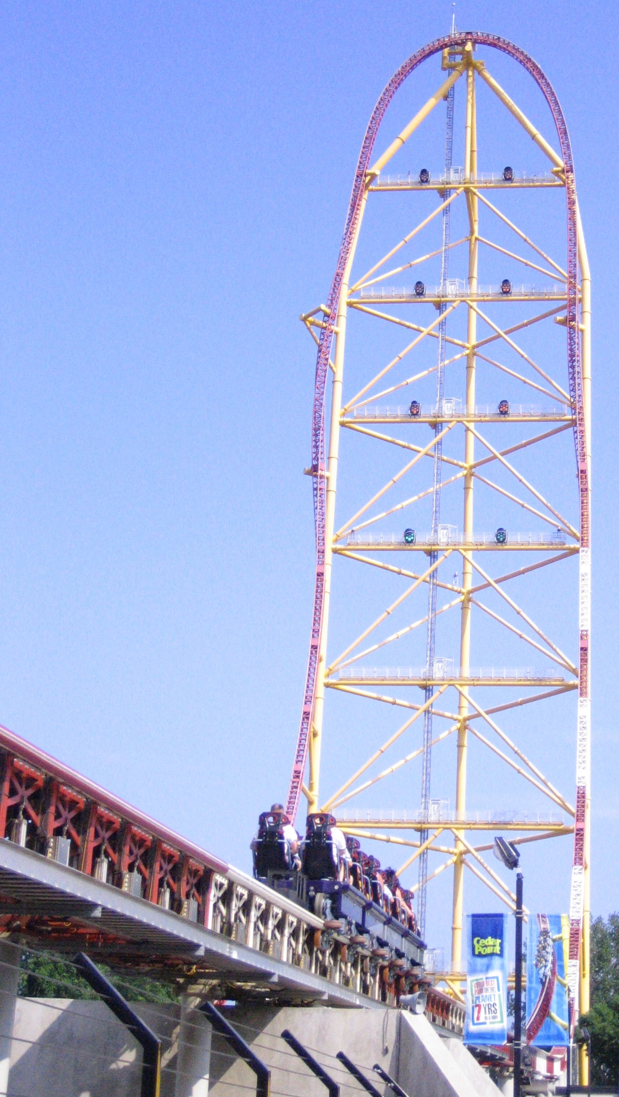 Cedar Point Top Thrill Dragster roller coaster. Sandusky, Ohio, USA. Tallest and fastest rollercoaster in the world - 120 mph and straight up 420 feet.